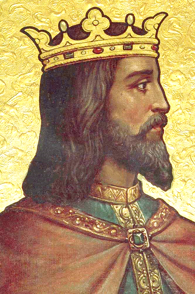 19th-century depiction of King Sancho II of Portugal, on the ceiling of the Kings' Room, Quinta da Regaleira, Sintra, Portugal.